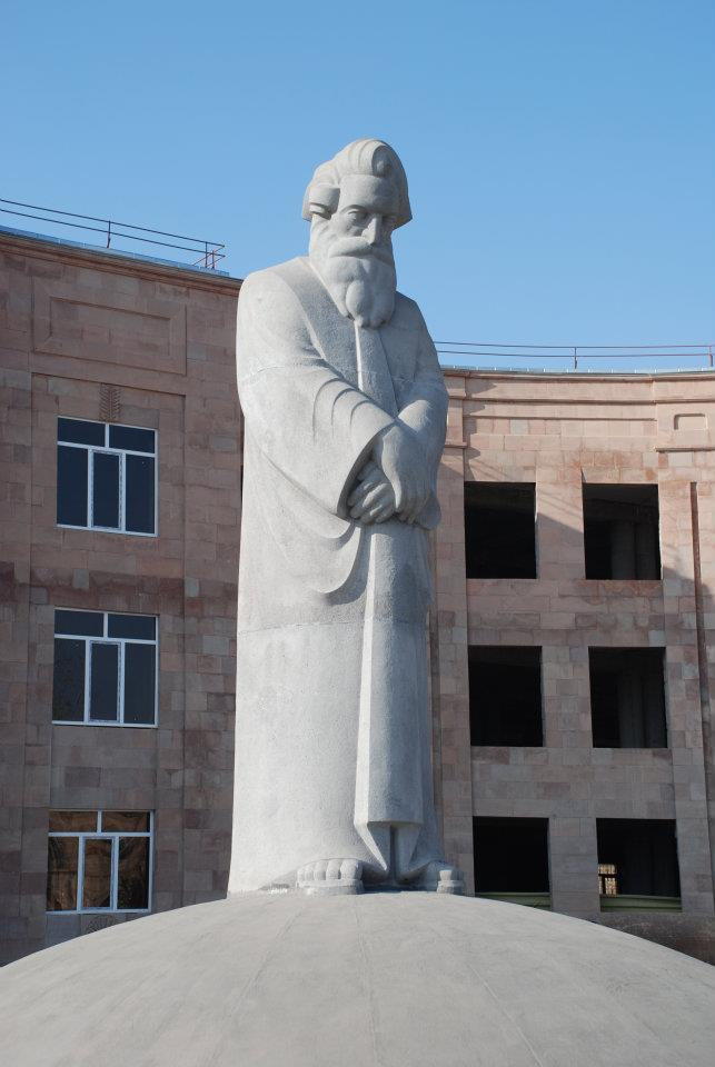 «Անանիա Շիրակացի» հուշարձան, բազալտ, 2009, Գյումրու Անանիա Շիրակացի փողոց